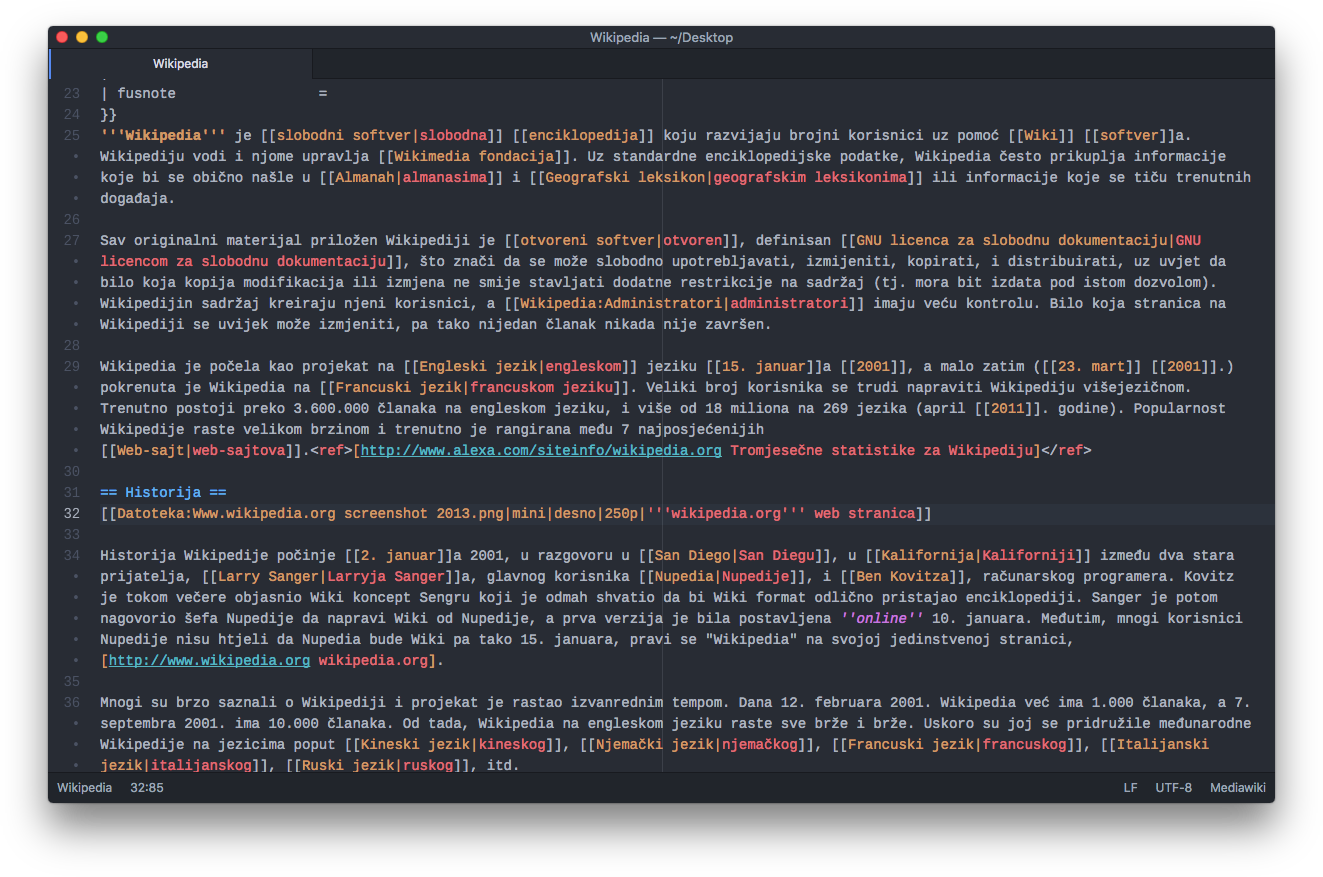 Example of MediaWiki syntax highlighting in Atom.